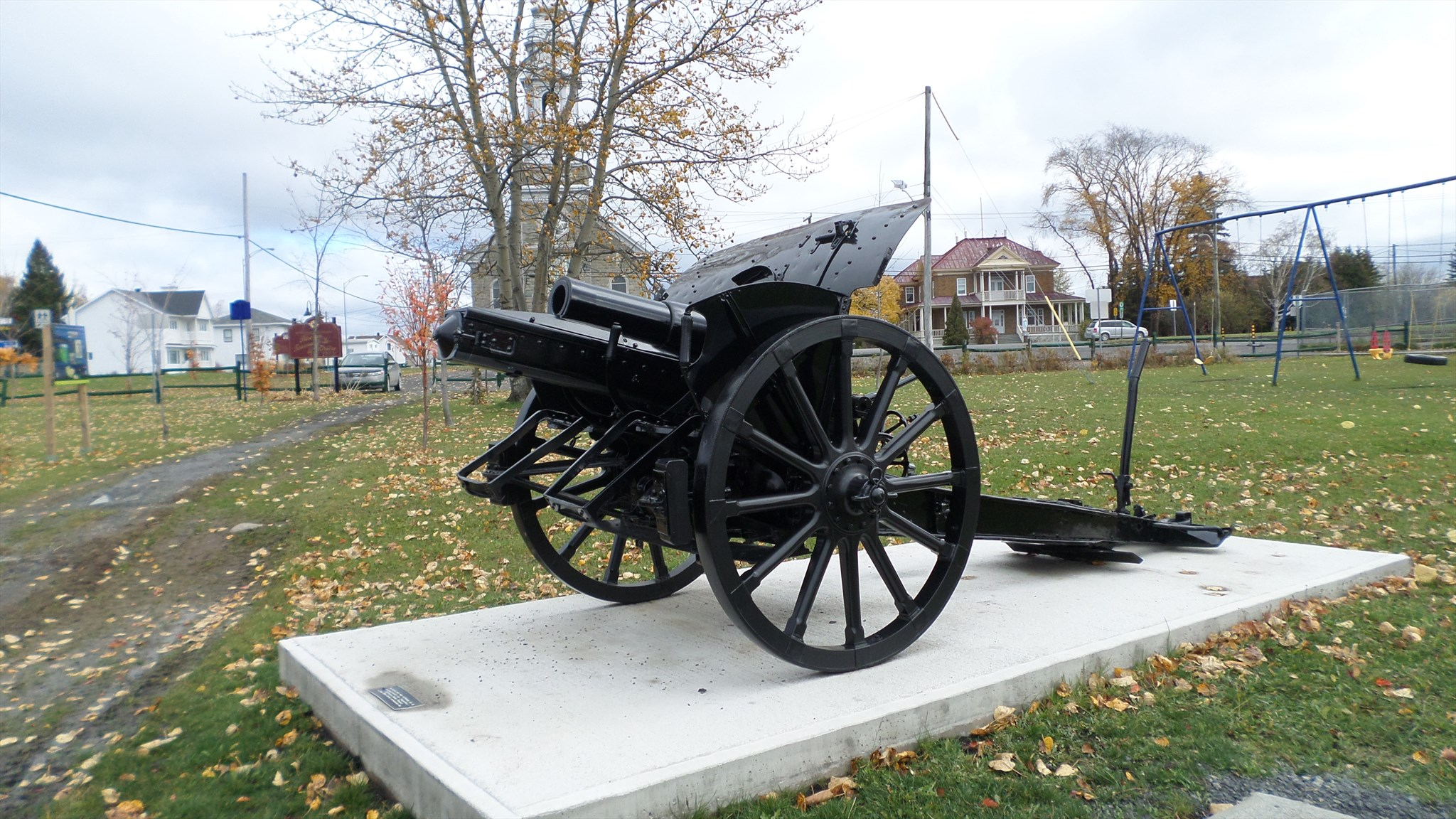 The Howitzer has received a well deserved restauration in the recent years including a new concrete pedestal, a new paint job and a different set of wheels. ( Uncertain about the historical accuracy of that change.)